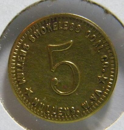 Coal scrip from one of the many operations in Mullens West Virginia